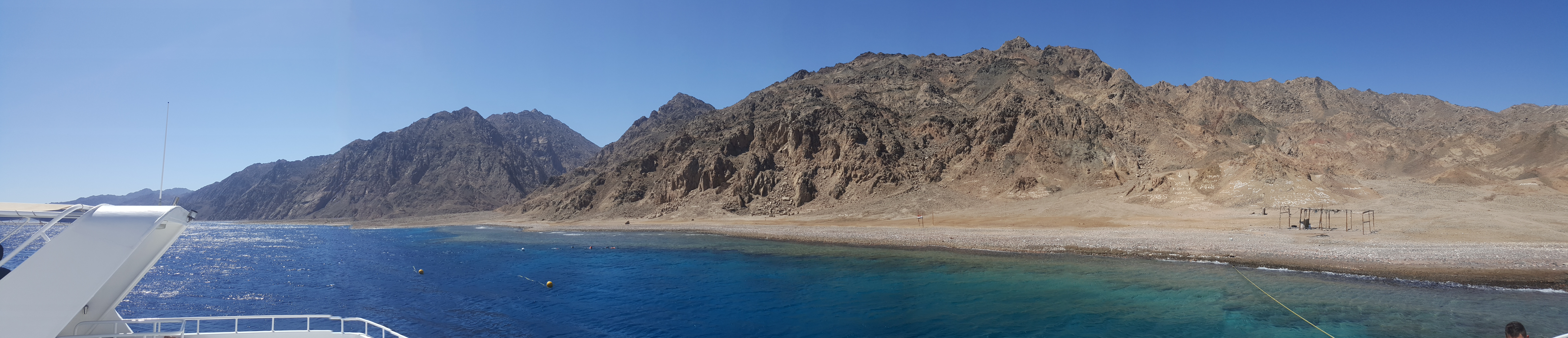 This is an image with the theme "Africa on the Move or Transport" from: Egypt